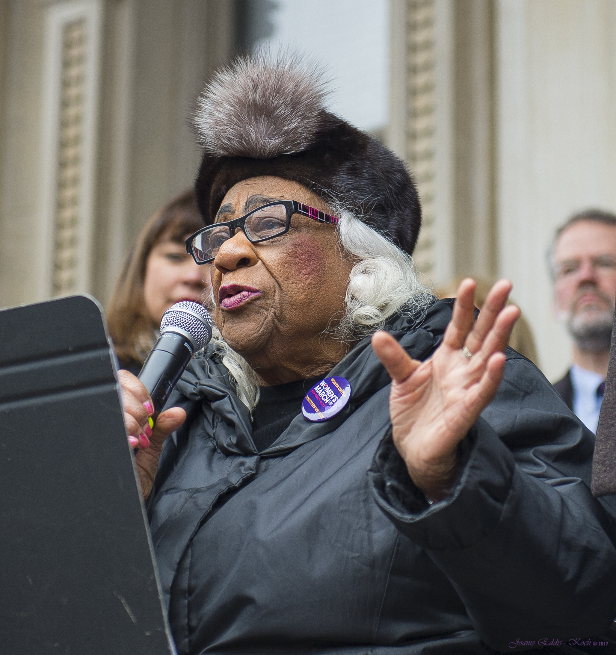 New Jersey State Assemblywoman Elizabeth Muoio speaks to the crowd in Trenton attending the Women's March on New Jersey 1 21 17